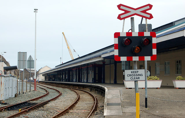 Fishguard railway station photo-survey (1) Looking towards the terminal end of the single-platform railway station at Fishguard ferry port. Fishguard railway station is the terminus of a single track branch from Clarbeston Road Junction [1] on the West Wales line. The station is managed by Stena, the ferry operator, and the train service is operated by Arriva Trains Wales. The station and adjacent deep water berths at Fishguard were built by the Great Western Railway as a terminal for the Atlantic passenger trade. Today, the port serves only ferries to Ireland and the station, reduced to a shadow of its former glory, is served by two passenger trains each day to meet the ferry sailings.